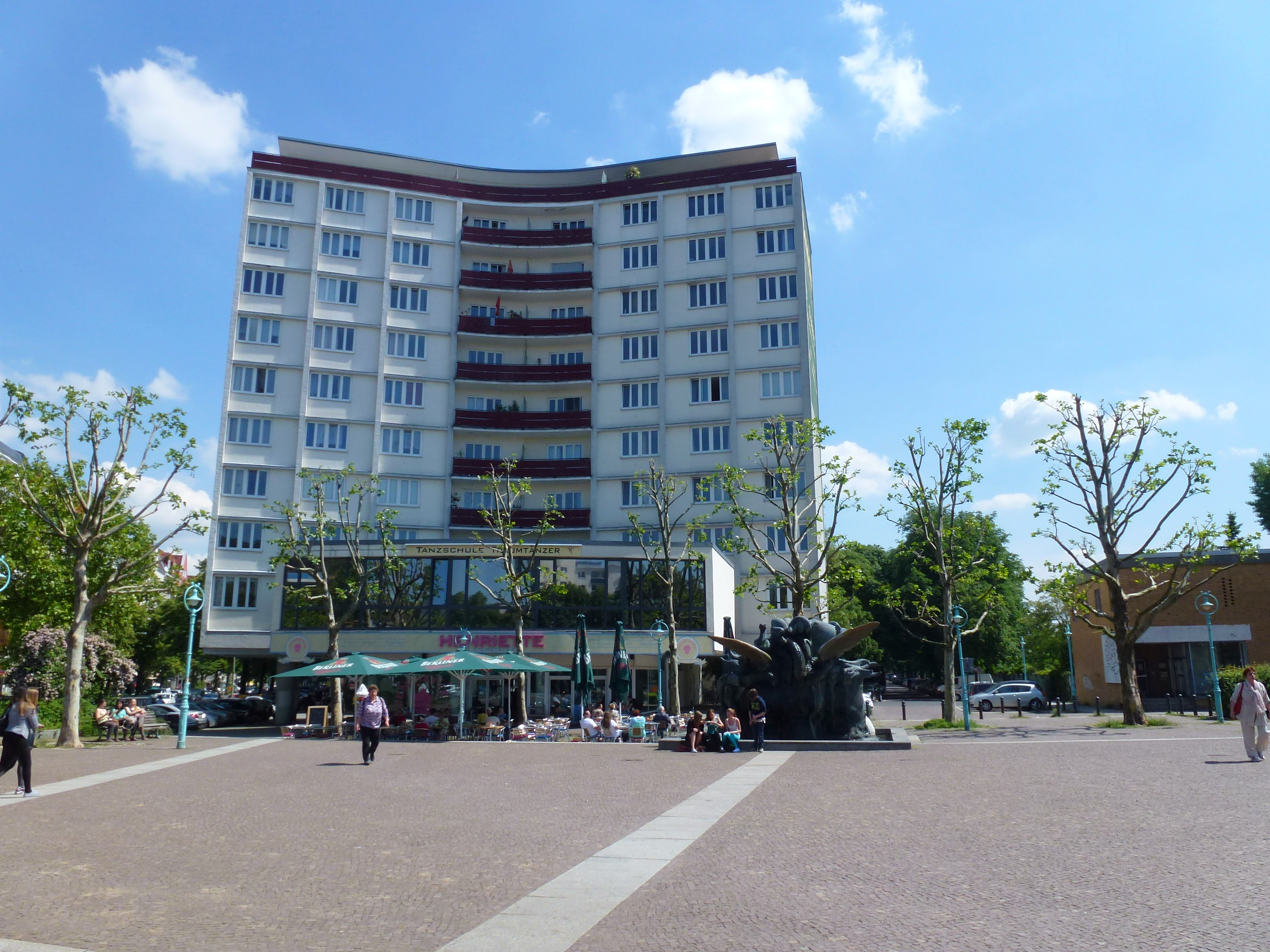 Berlin-Halensee Henriettenplatz Südseite Wohn- und Geschäftshaus von Helmut Ollk Gert von Schöppenthau 1956